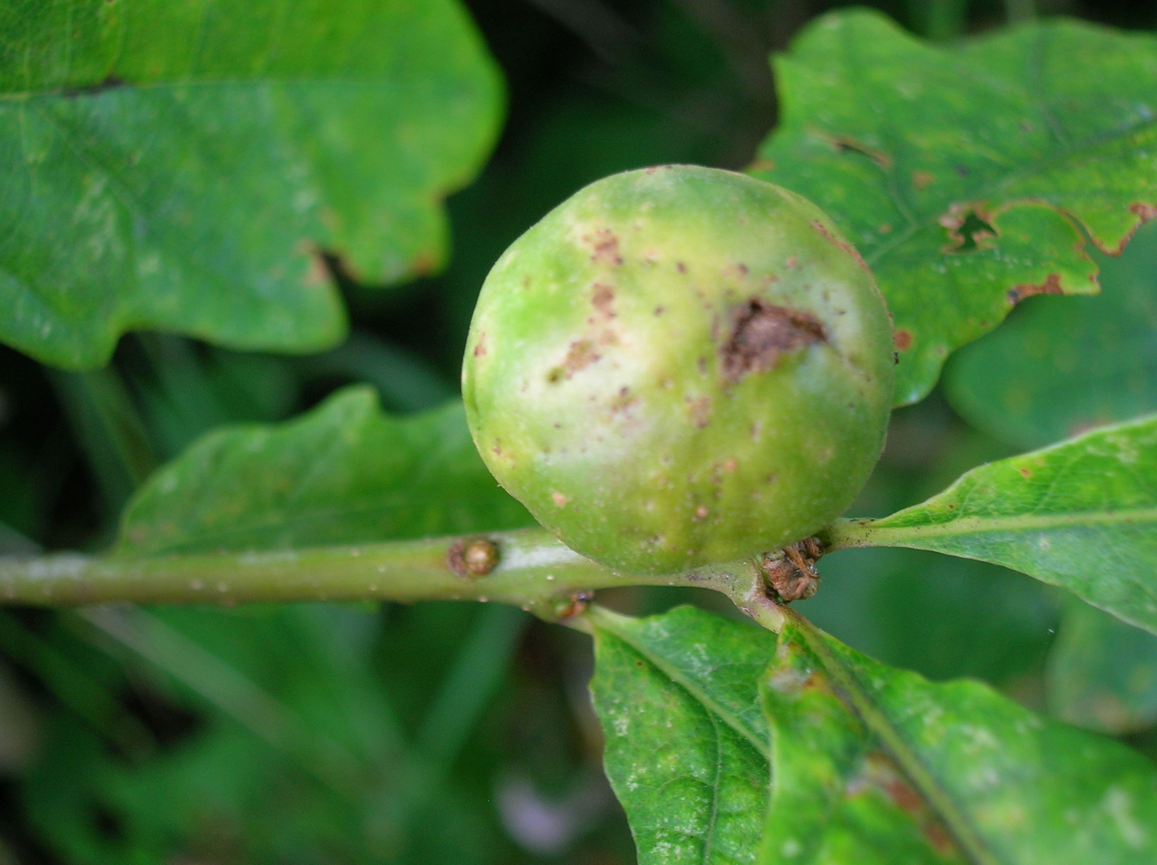 Developing Oak Marble gall caused by the insect Andricus kollari on Quercus robur. Chapeltoun, North Ayrshire, Scotland